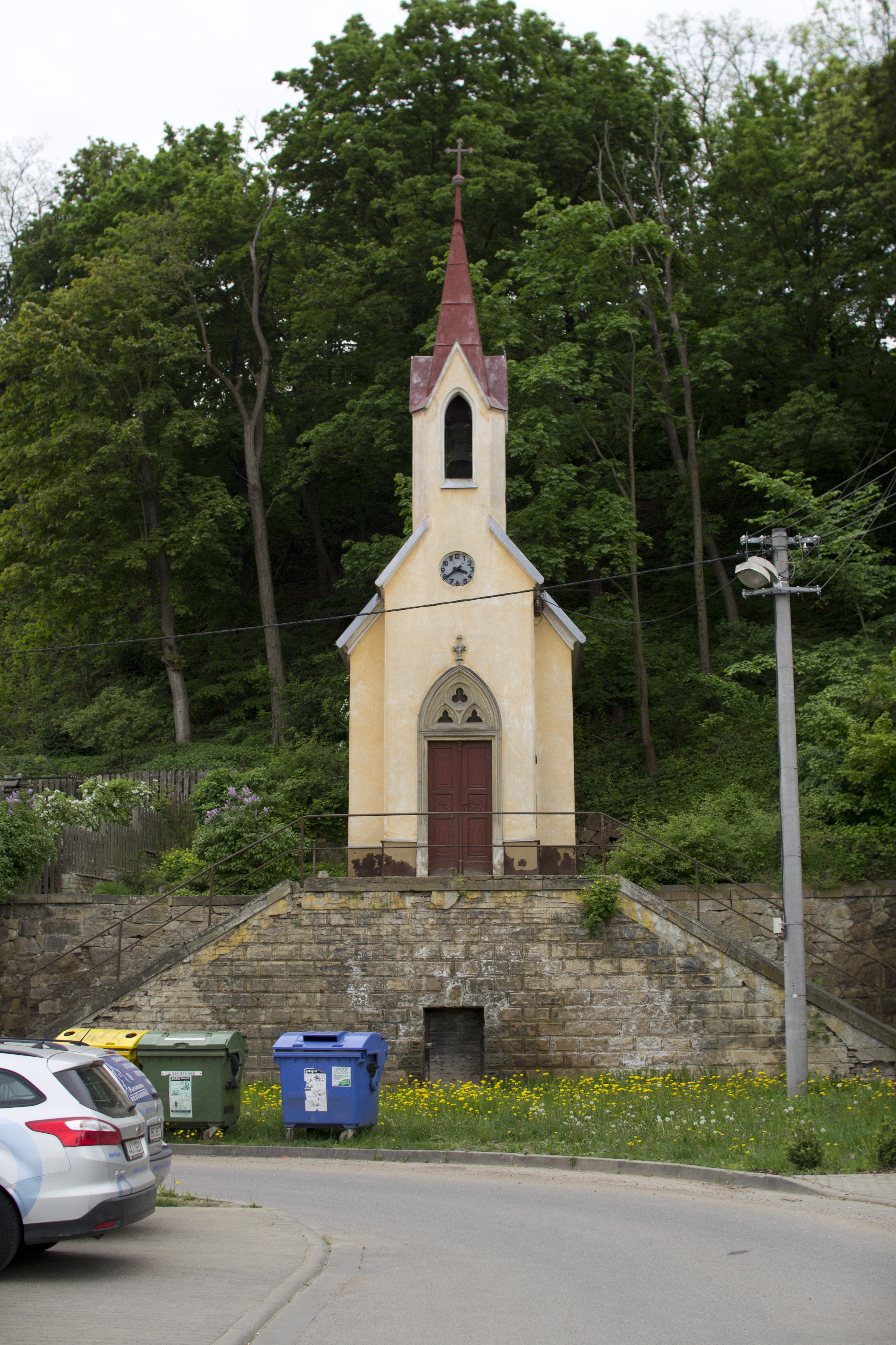 Chaple, Alexovice, Ivančice, Brno-Country District, South Moravian Region, Czech Republic